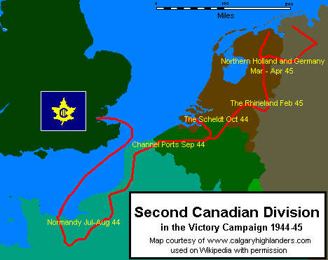 Author Michael Dorosh, adapted from image used at and donated to Wikipedia